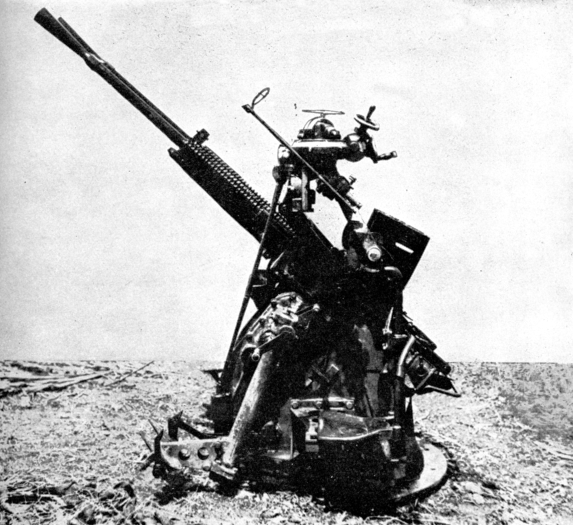 A Japanese mechanical lead computing sight mounted on a Type 96 25 mm machine gun twin mount.